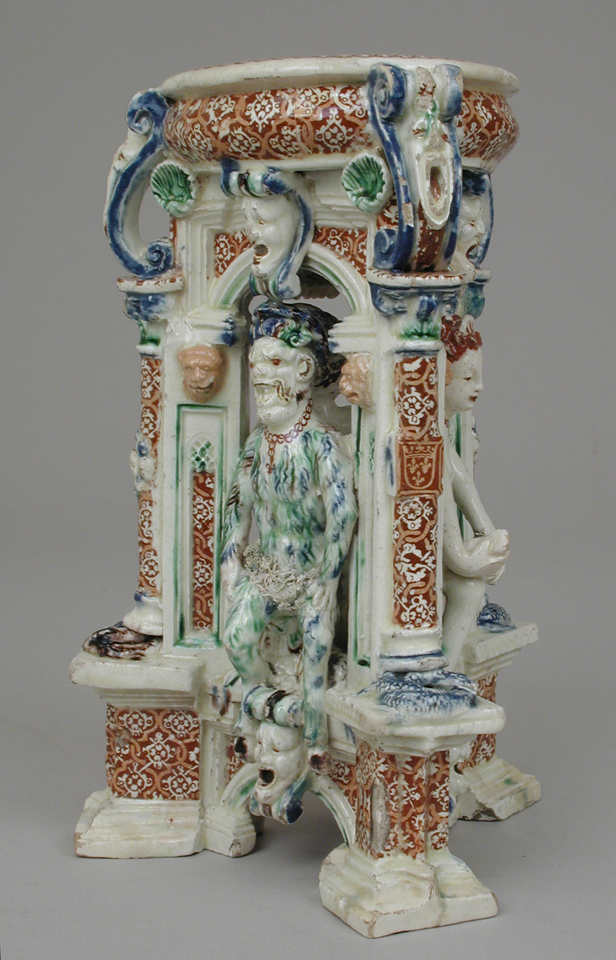 French, Saint-Porchaire or Paris; Salt; Ceramics-Pottery